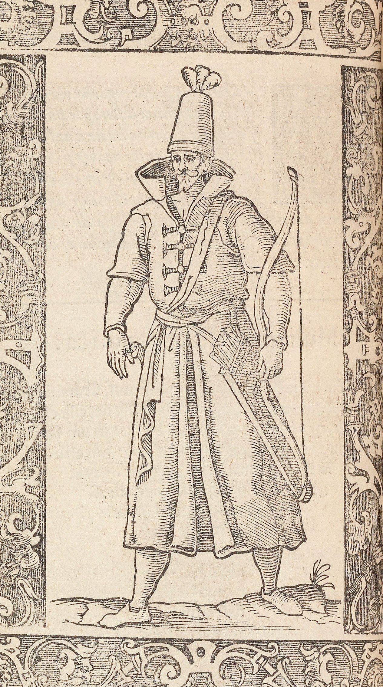 Cesare Vecellio. Habiti antichi et moderni di tutto il mondo di nuovo accresciuti di molte figure. Vestitus antiquorum recentiorumque totius orbis per Pulstatium Gratilianum latine declarati. - Venetia: Sessa 1598. - p. 353.